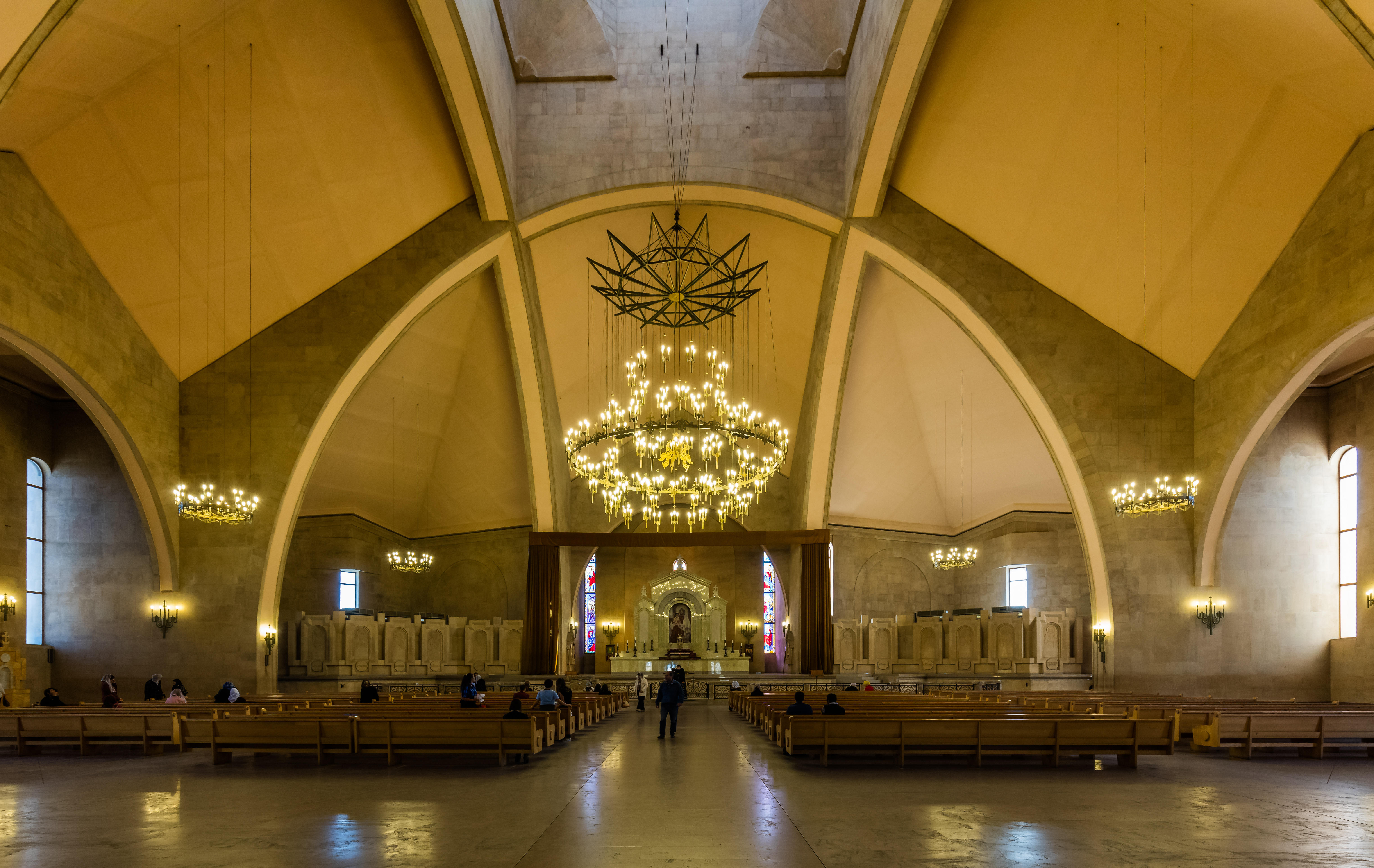 St Grigor Lusavorich church, Yerevan, Armenia